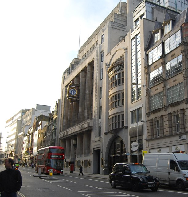 135-141 Fleet Street, Formerly the Daily Telegraph Building